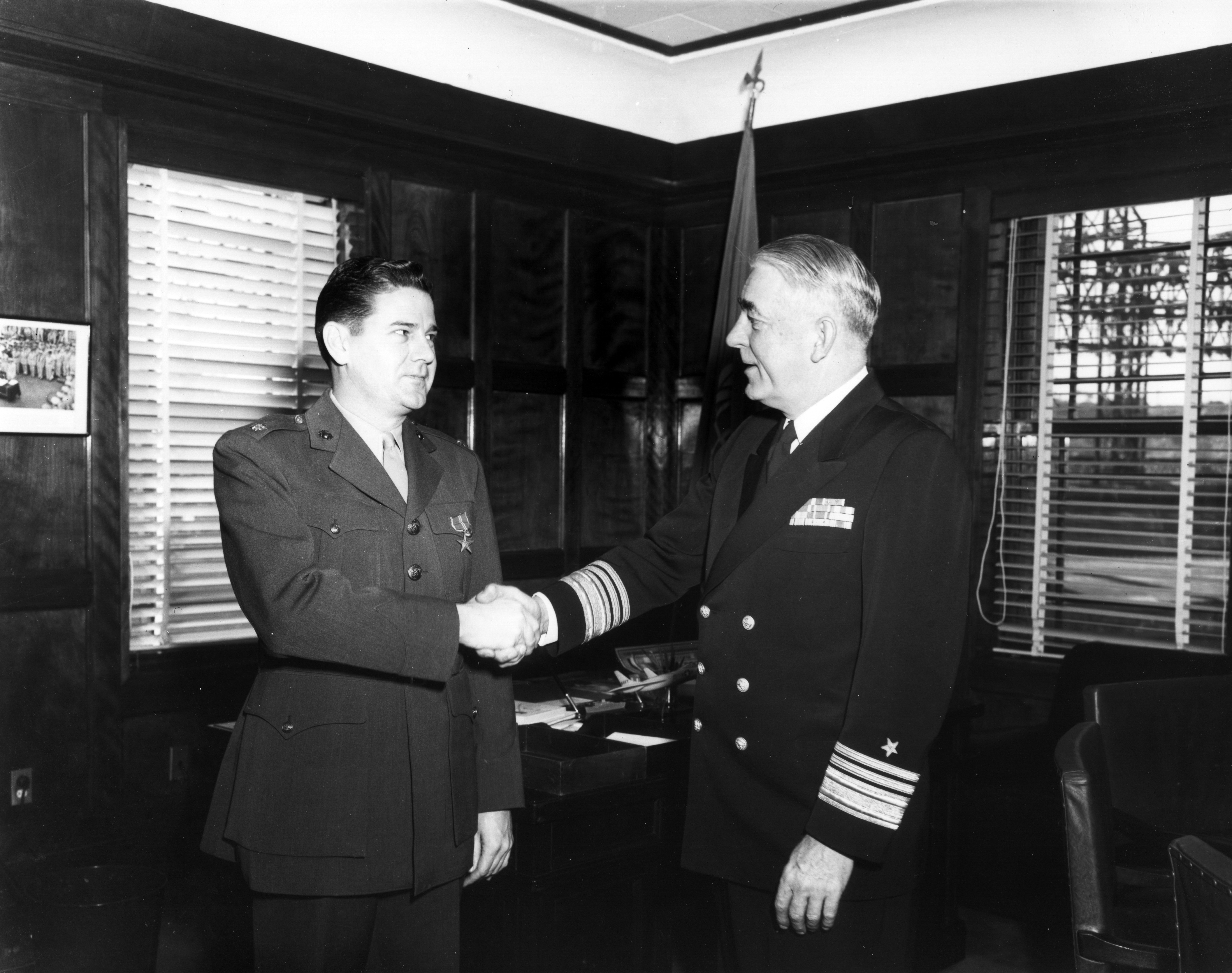 Vice admiral Robert P. Briscoe, USN, Commander Naval Forces Far East, congratulates Lt. col. Leo J. Dulacki, USMC, after presenting him the Bronze Star Medal with Combat "V" in ceremony held at the Far East headquarters in Yokosuka, Japan. As Battalion commander with First Marine Division in Korea, Lt. col. Dulacki was commended for his battalion being outstanding in the disposition and construction of its defensive operations against the enemy.